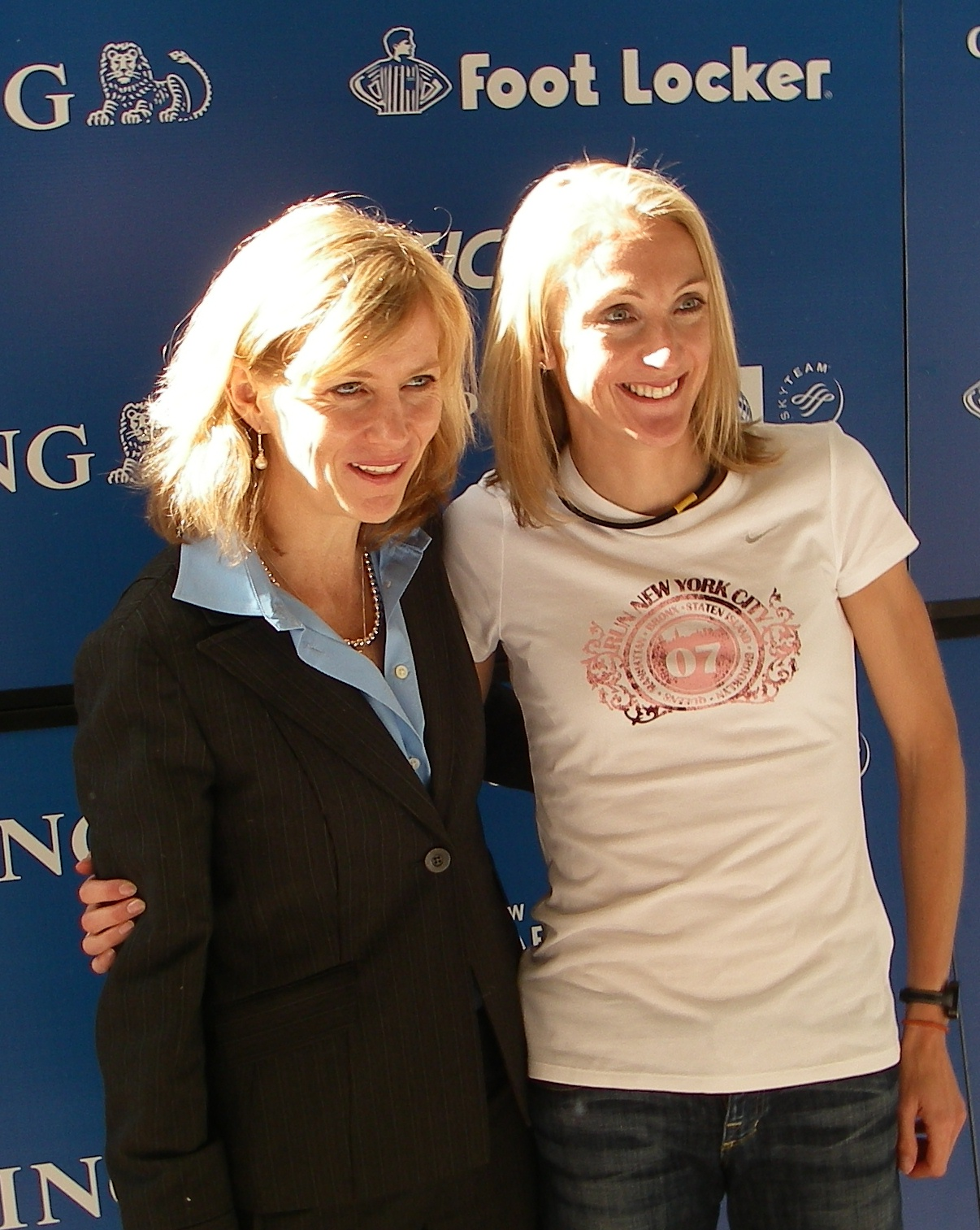 NEW YORK, NY - Race Director Mary Wittenberg with marathon record holder Paula Radcliffe at the ING New York City Marathon press conference in Central Park. [November 2, 2007] Read Blog Post.